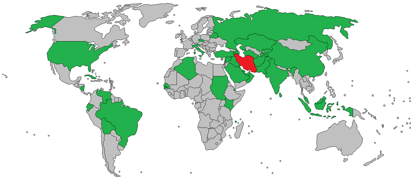 Iran PresidentMahmoud AhmadinejadPresidential Trips